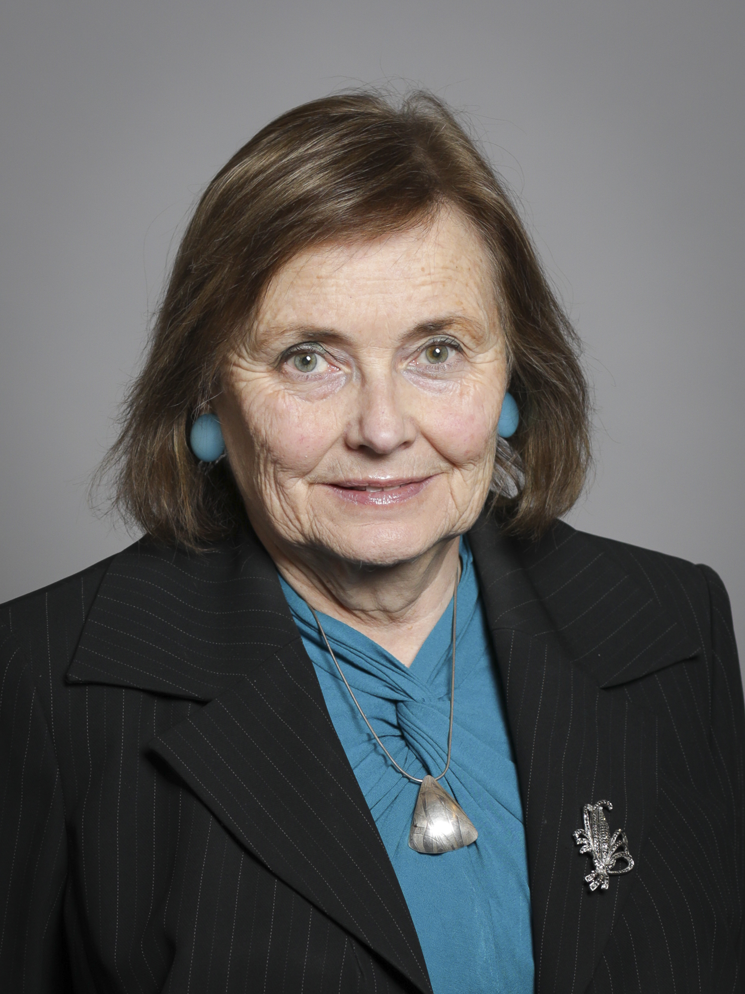 Official portrait of Baroness Tyler of Enfield 3×4 portrait of Baroness Tyler of Enfield